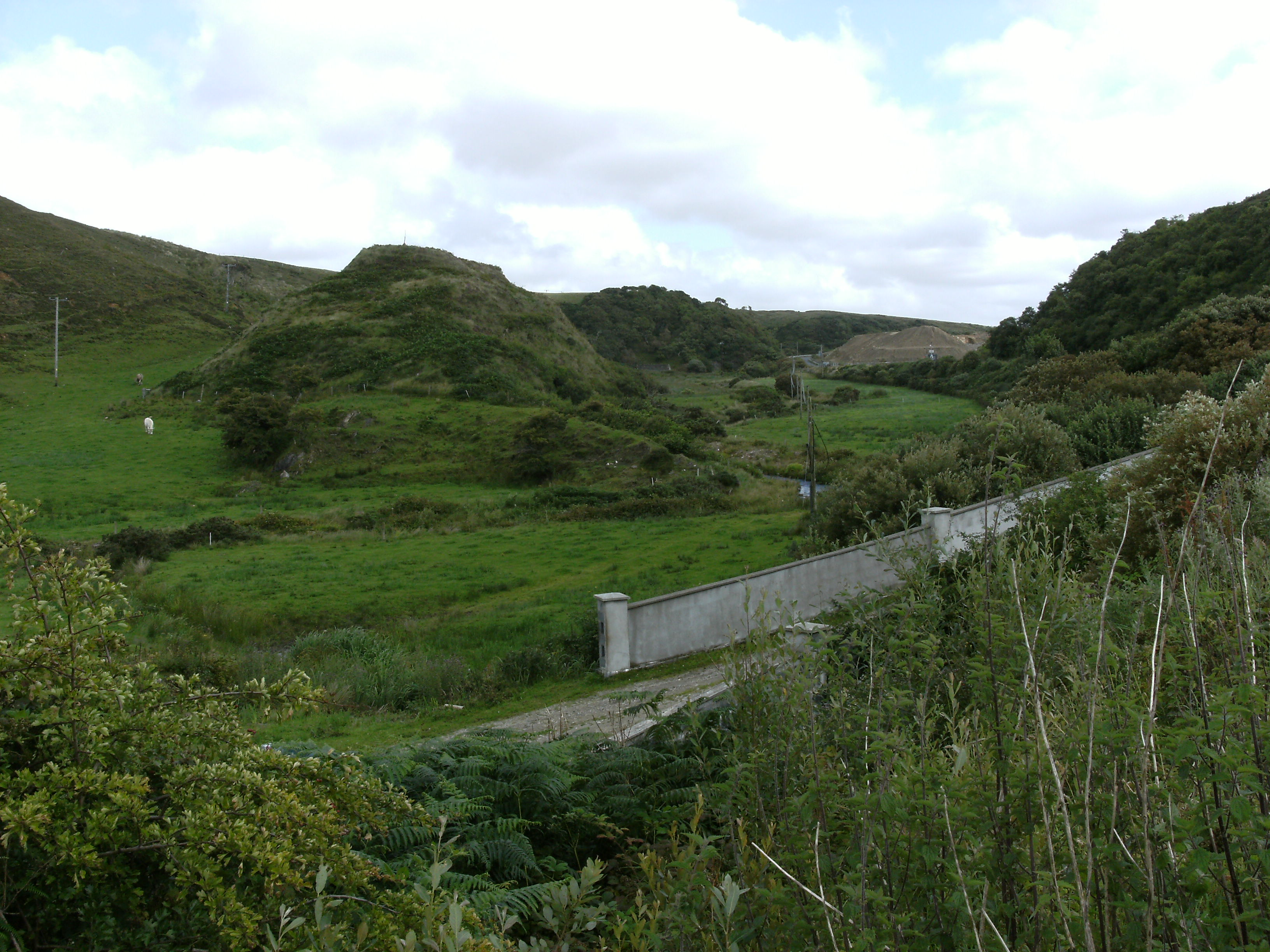 Glencastle, Erris, Dún Dohmnaill fort